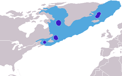 Distribution of the hooded seal (dark blue: breeding places; light blue: non-breeding individuals)